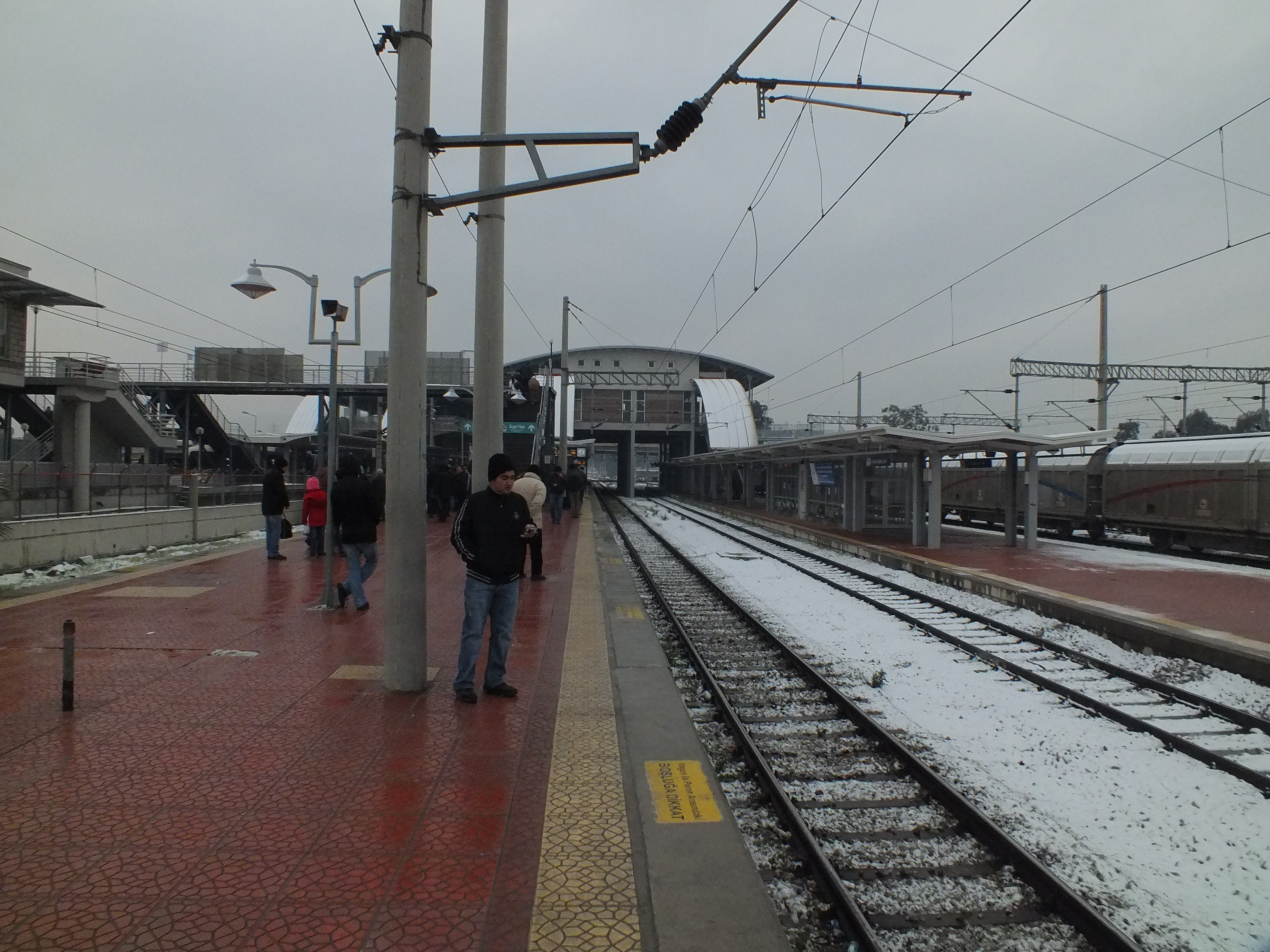 Halkapinar on a snowy day.